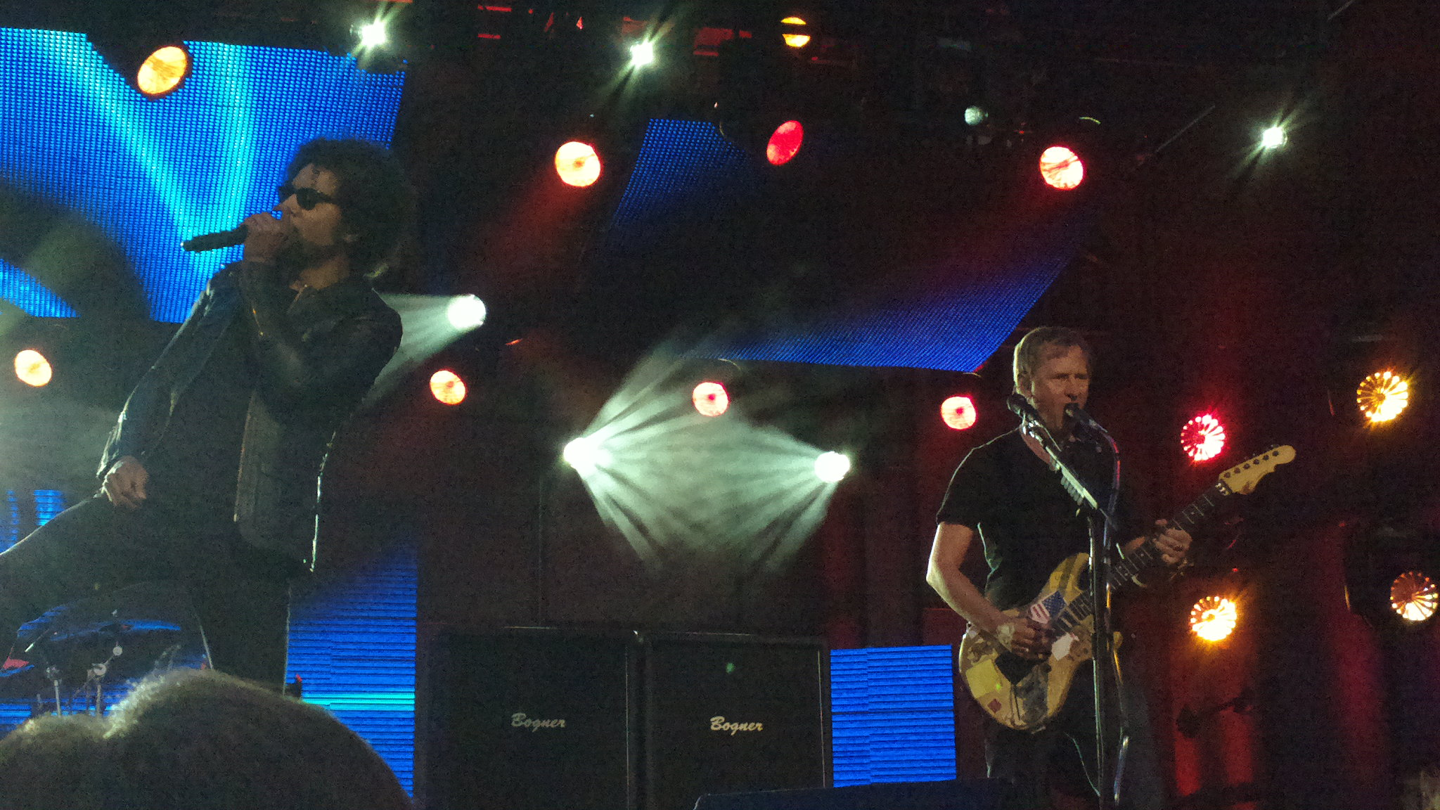 William DuVall & Jerry Cantrell live at 2013.